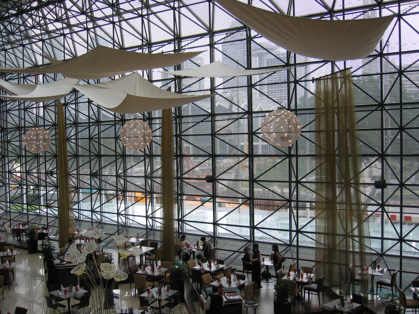 Swissotel The Stamford.